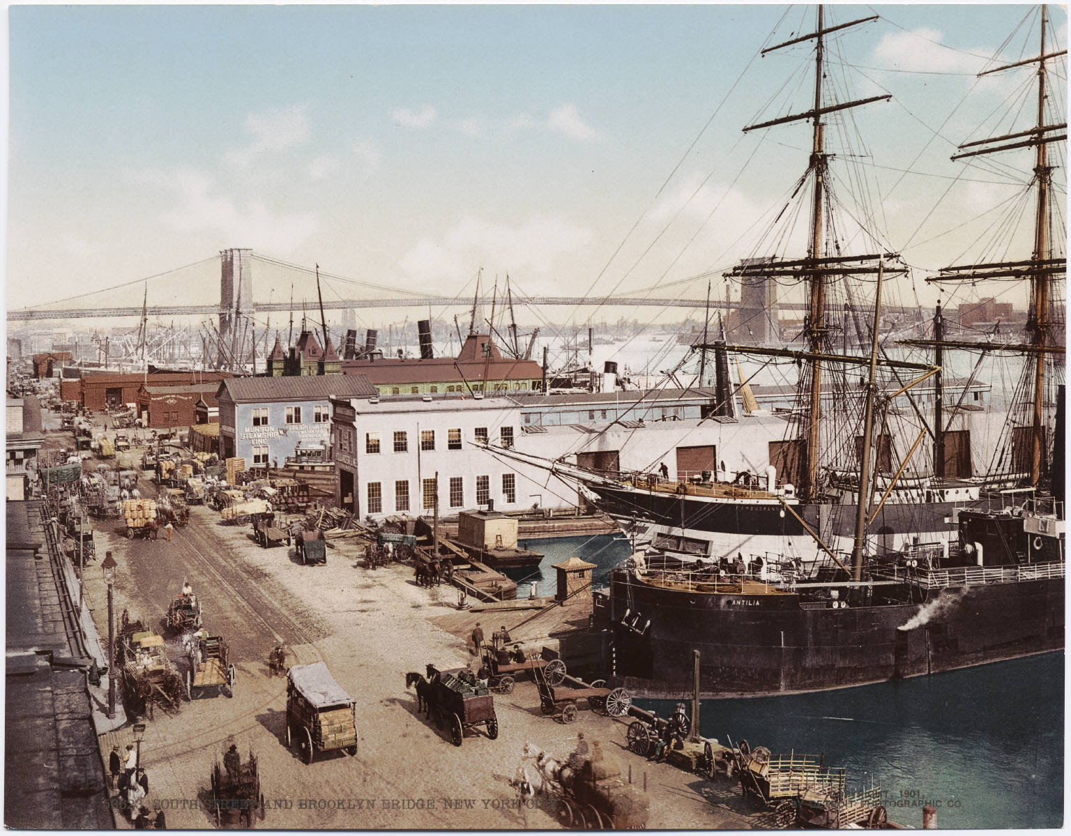 A photochrom postcard published by the Detroit Photographic Company.